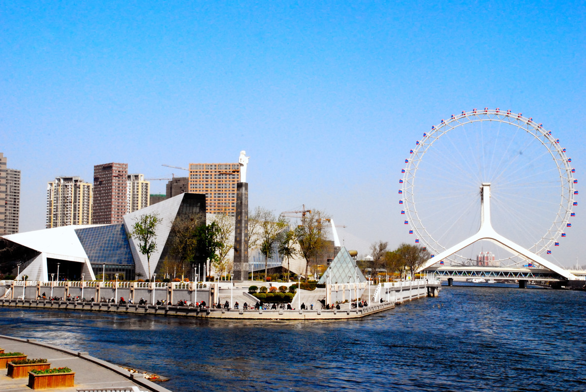 Posted via email from comer's posterous